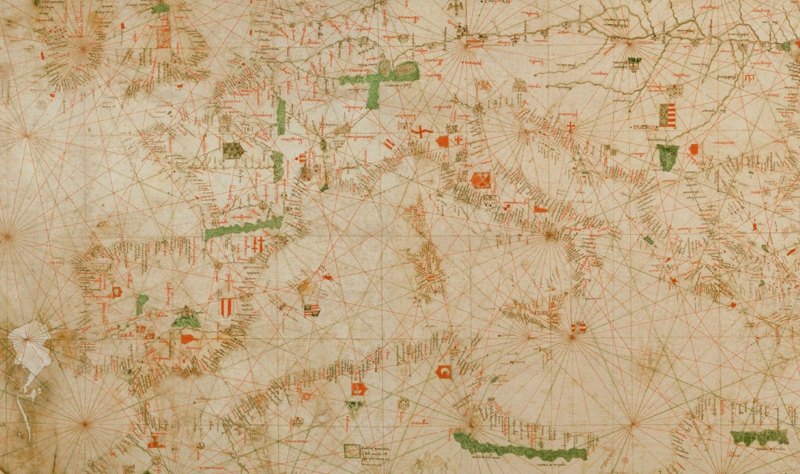 Part of the portolan chart commonly known as the 1325 map of Angelino Dalorto (prob. same person as Angelino Dulcert, real name probably Angelino Dulceto or Dulceti, and this chart really dated 1330). It is held in the collection of Prince Corsini in Florence. This image is cropped. The full Dalorto portolan includes more of North Africa and Eastern Europe, the Black Sea, the Middle East, and parts of northern Europe and the Baltics.